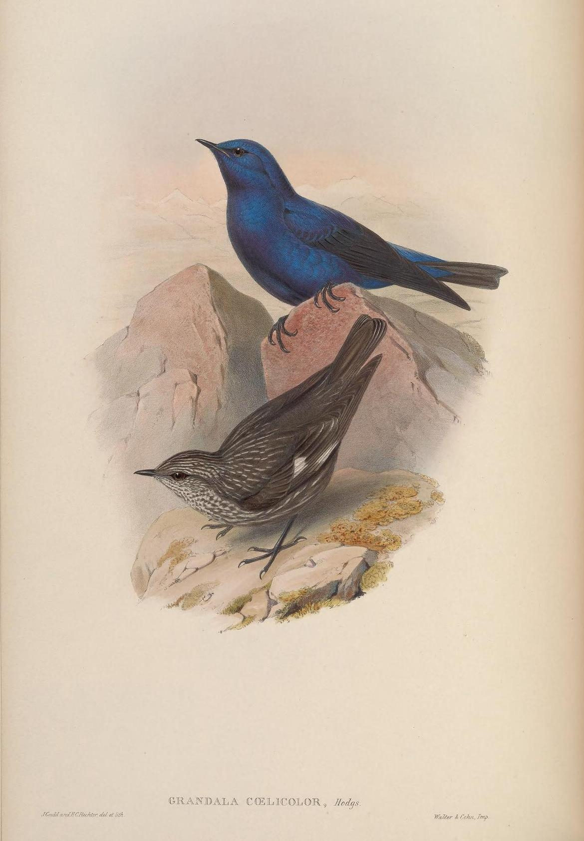 Grandala